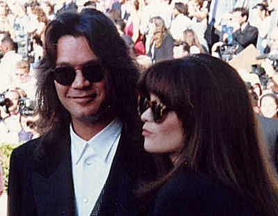 Eddie Van Halen and Valerie Bertinelli on the red carpet at the Emmy Awards 1993.